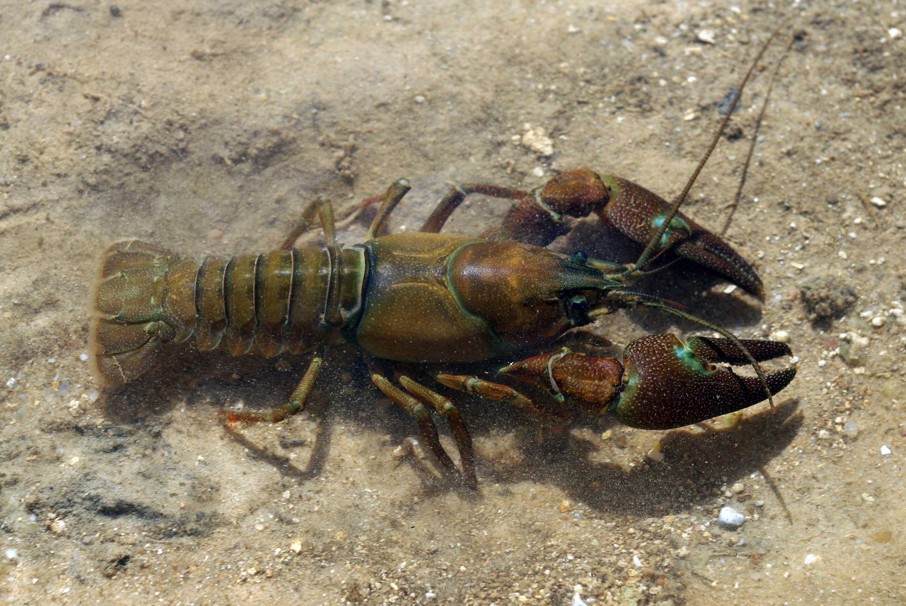 Signal Crayfish (Pacifastacus leniusculus). River Arlanza, near Santo Domingo de Silos, Burgos (Spain).